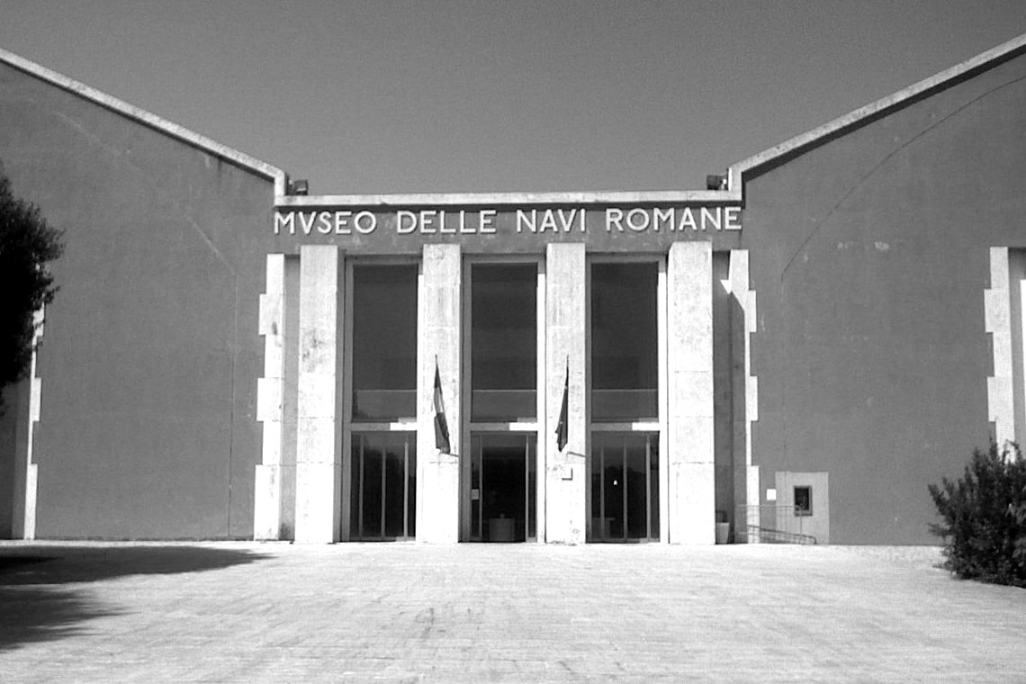 The Museum of Nemi ships